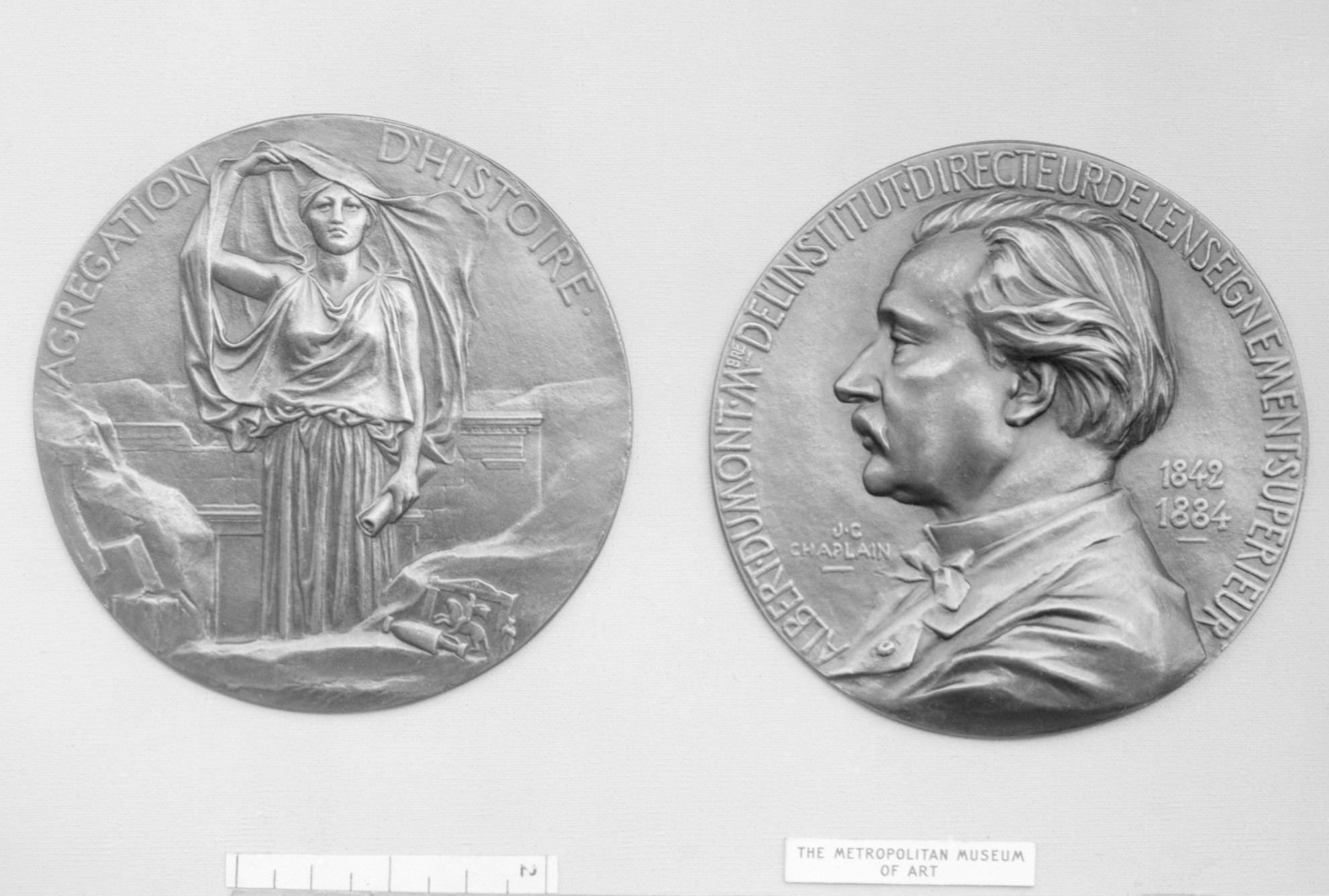 French; Medallion; Medals and Plaquettes